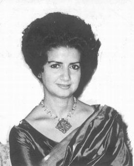 Source info given by uploader in edit summary as: "Author: Self-made." --bainer (talk) 05:23, 14 May 2006 (UTC) Removed from the following pages: Zaib-un-Nissa Hamidullah --OrphanBot 12:01, 10 May 2006 (UTC)